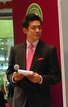 Chamanun Wunwinwate hosting in World No Tobacco day at MBK